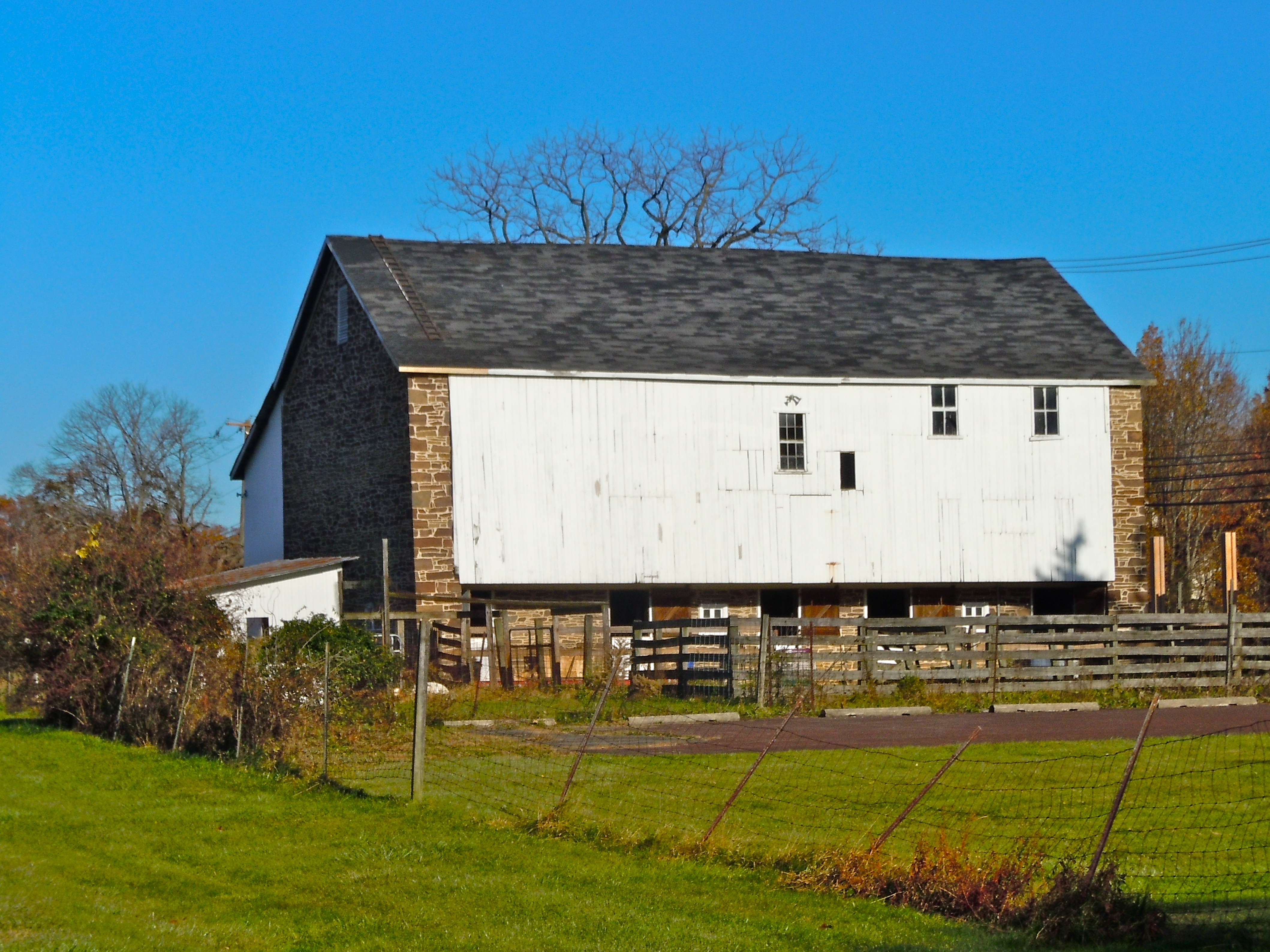 Barn on Isaac Kulp Farm, on the NRHP since March 12, 1999. At the junction of North Swedesford and Hancock Roads in Upper Gwynedd Township, Montgomery County, Pennsylvania. Rapidly developing suburban area near Philadelphia, but land protected by a farmland trust.